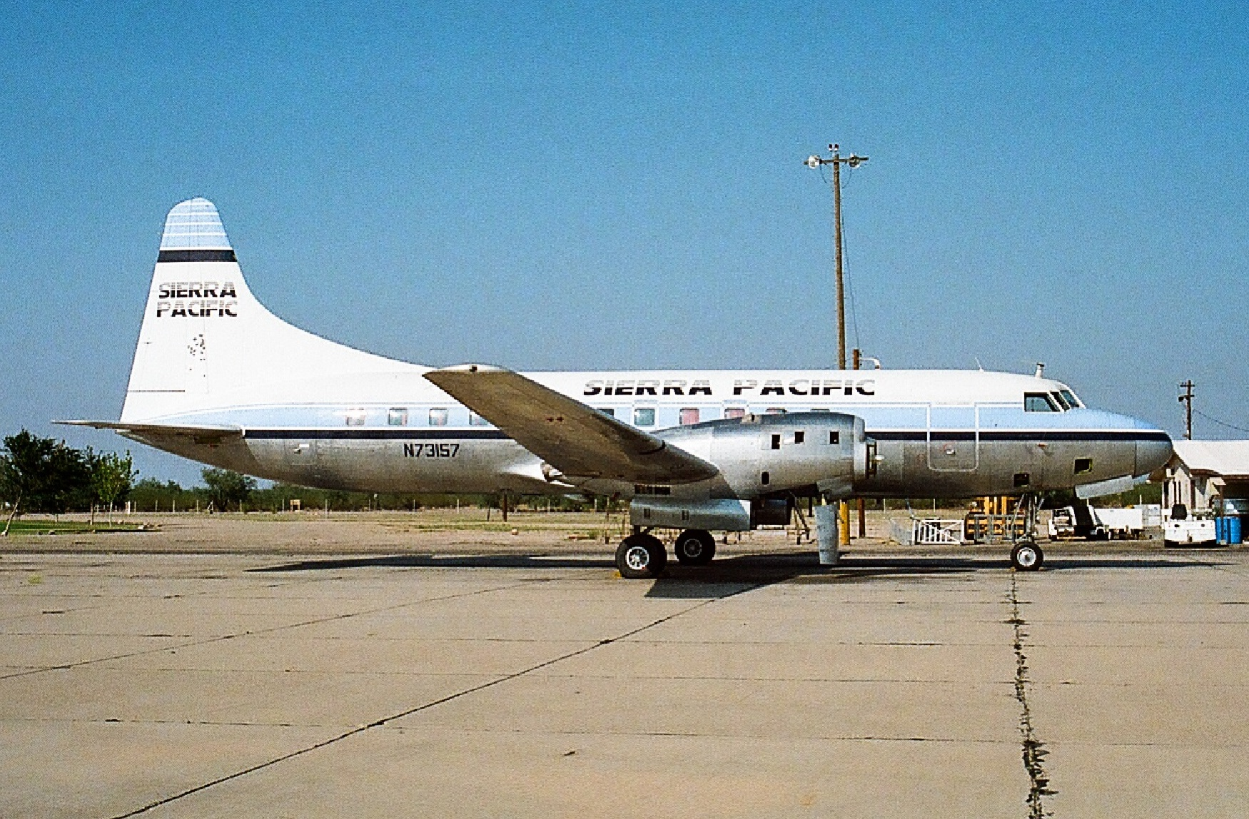 Convair CV-580 (Sierra Pacific Airlines) N73157 at Marana (Pinal) (MZJ), 1987